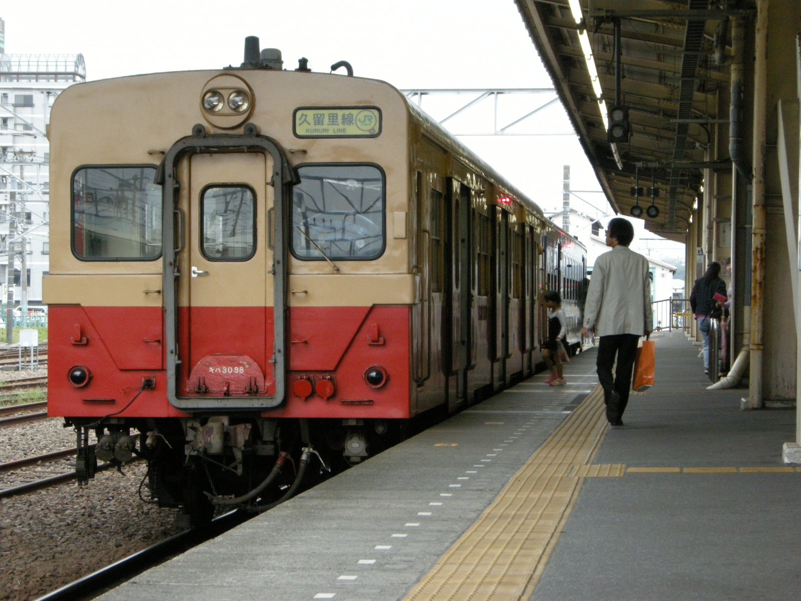 Kiha 30 series DMU at Kisarazu Station